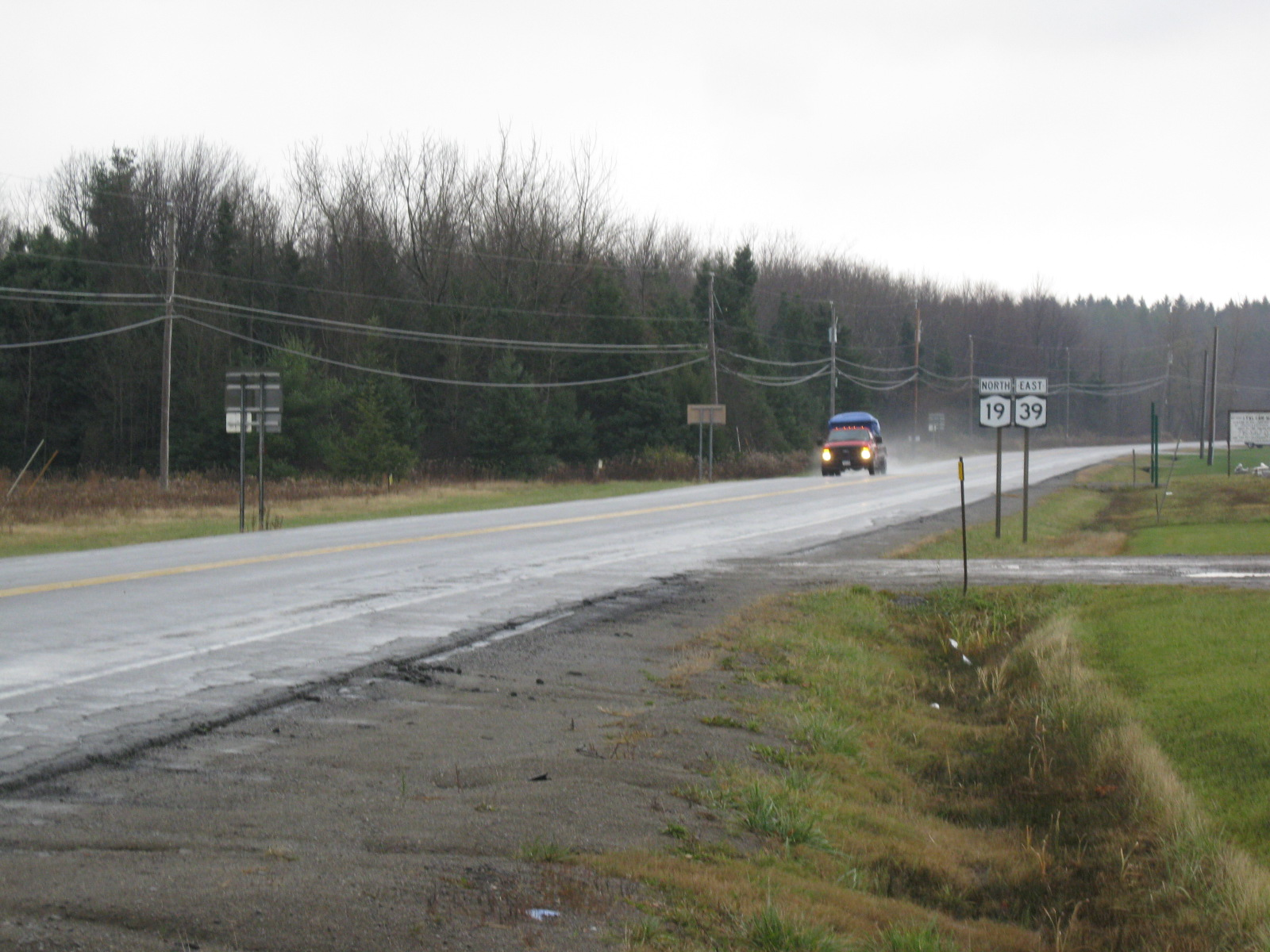 New York State Route 19 northbound and New York State Route 39 eastbound in the town of Pike.